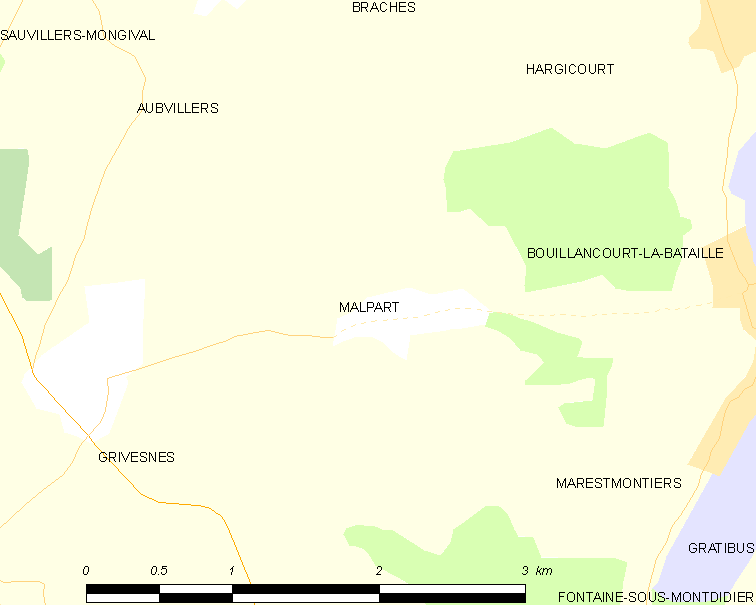 Map of French municipality Malpart